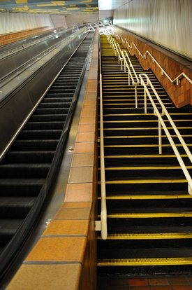 Photo of Porter Square's record-length escalator from the bottom